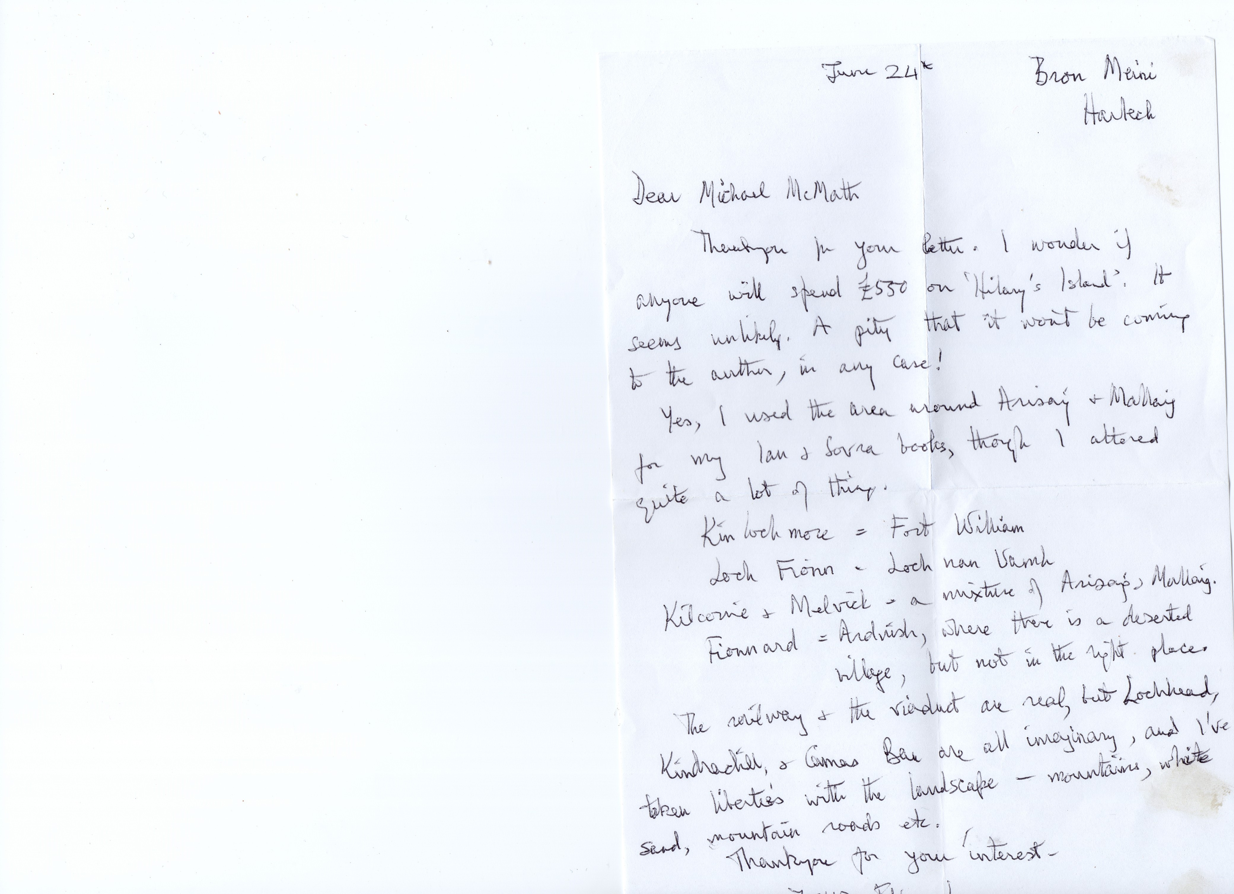 explanation of her setting for the Ian and Sovra books